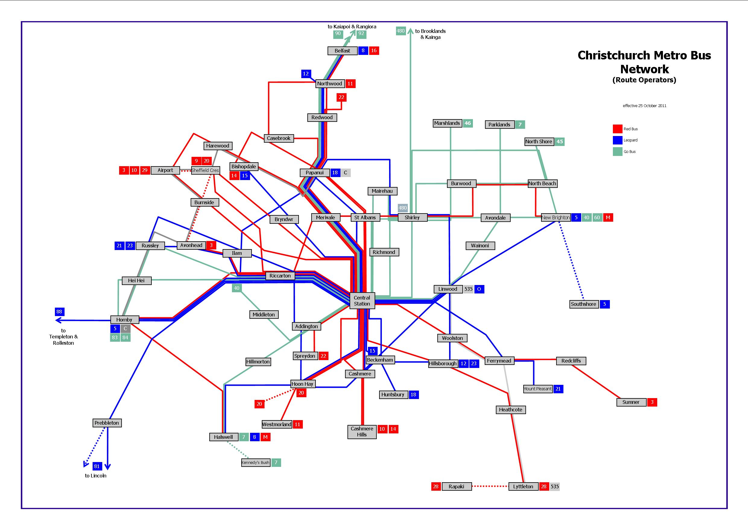 Route Operators Metro Network Map